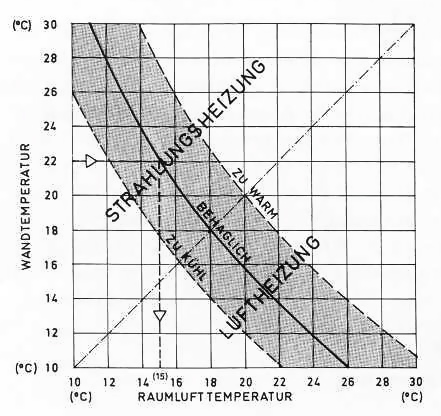 Comfort-diagram according to Bedford and Liese. Showing relation between wall and air temperature and comfort levels in a room.